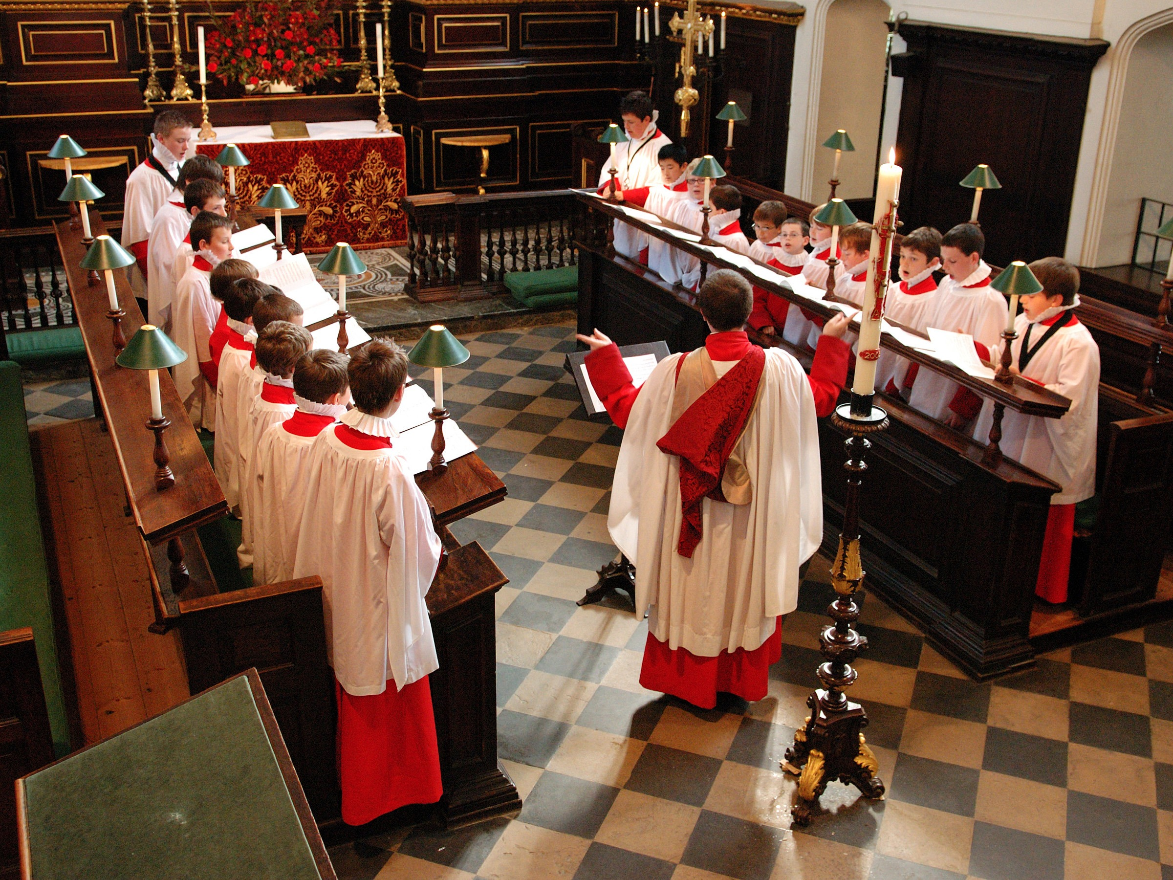 The Boys Choir of All Saints' Church, Northampton